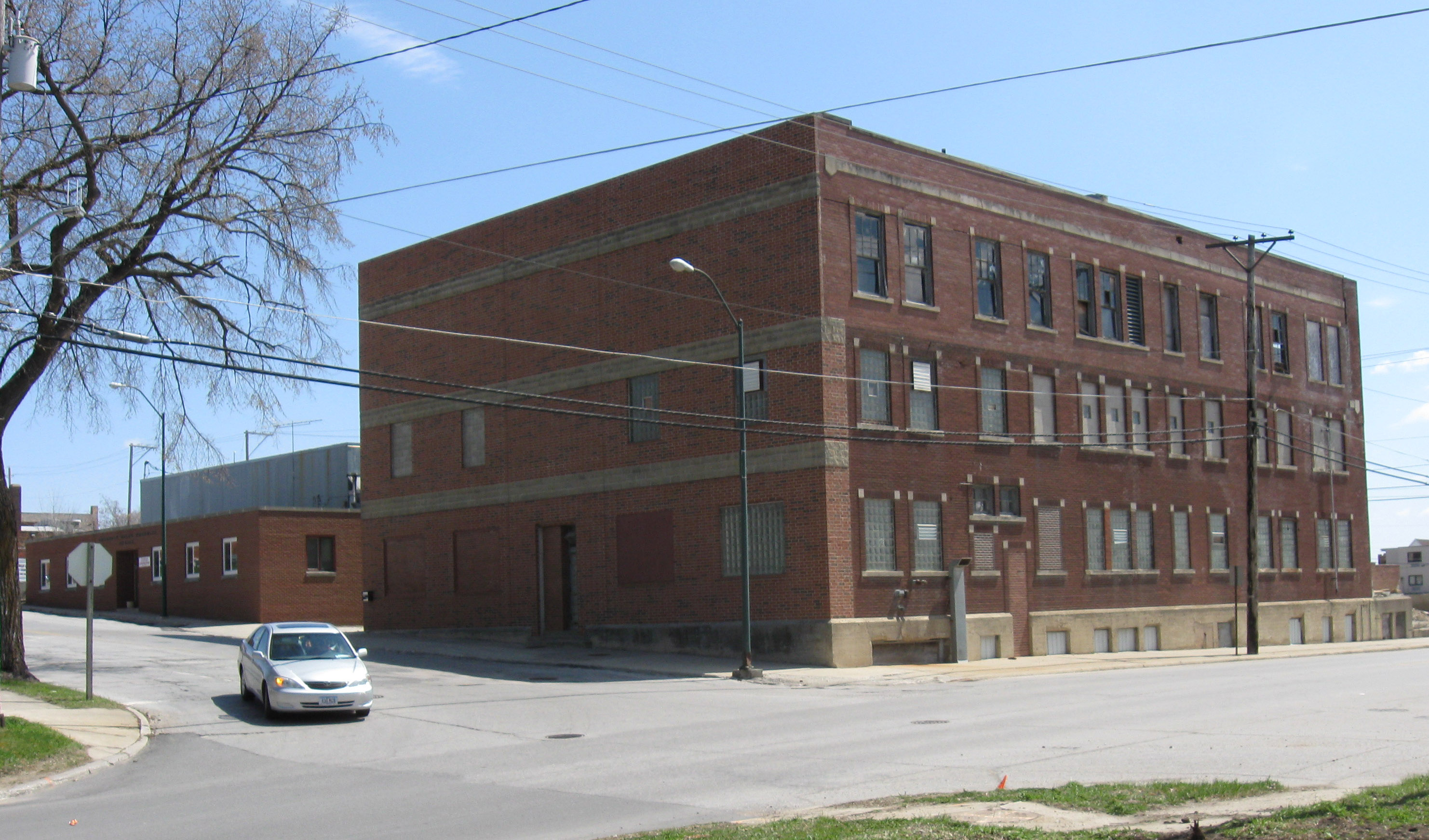 Rosedale Dairy, Fort Dodge, abandoned Eskimo Pie plant. Bill Whittaker (talk) 13:13, 26 June 2009 (UTC)